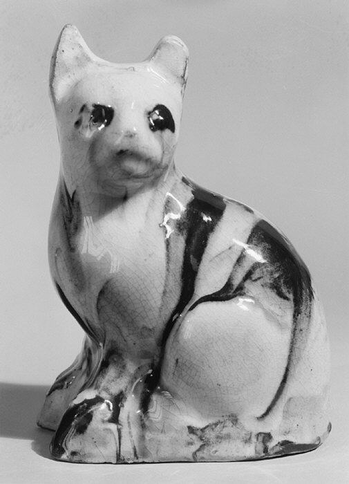 British, Staffordshire; Figure; Ceramics-Pottery